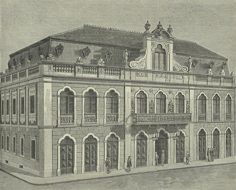 The Teatro do Príncipe Real, in Lisbon, in an engraving published in 1884